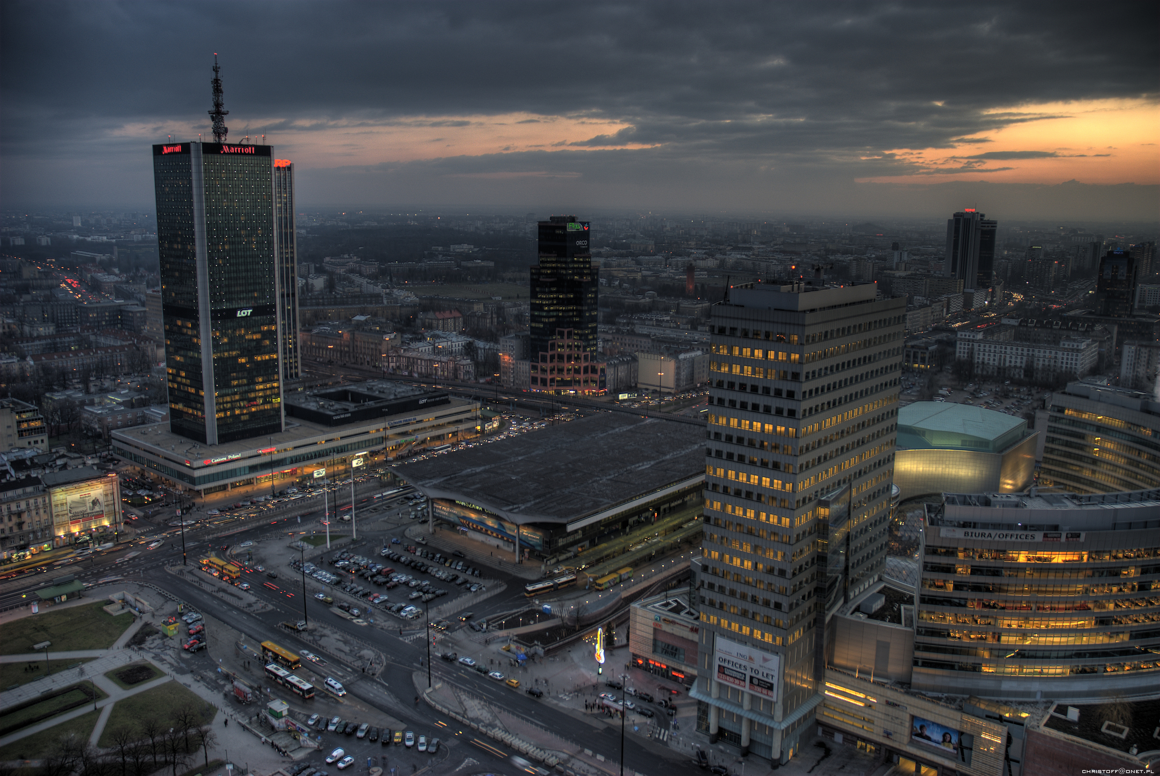 taken from PKiN, Warsaw, Poland Explore's best: #124